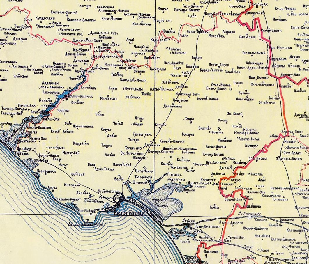 Evpatorijsky district on the map in 1922.